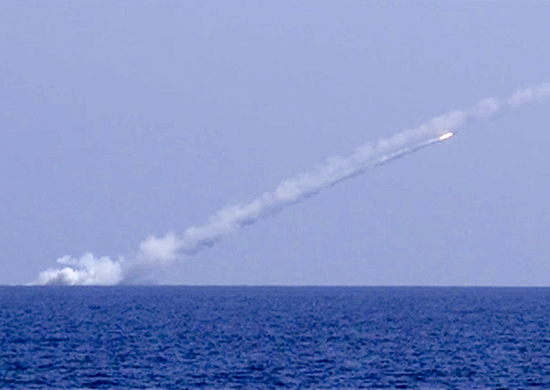 Russian submarines attack ISIS targets in Syria